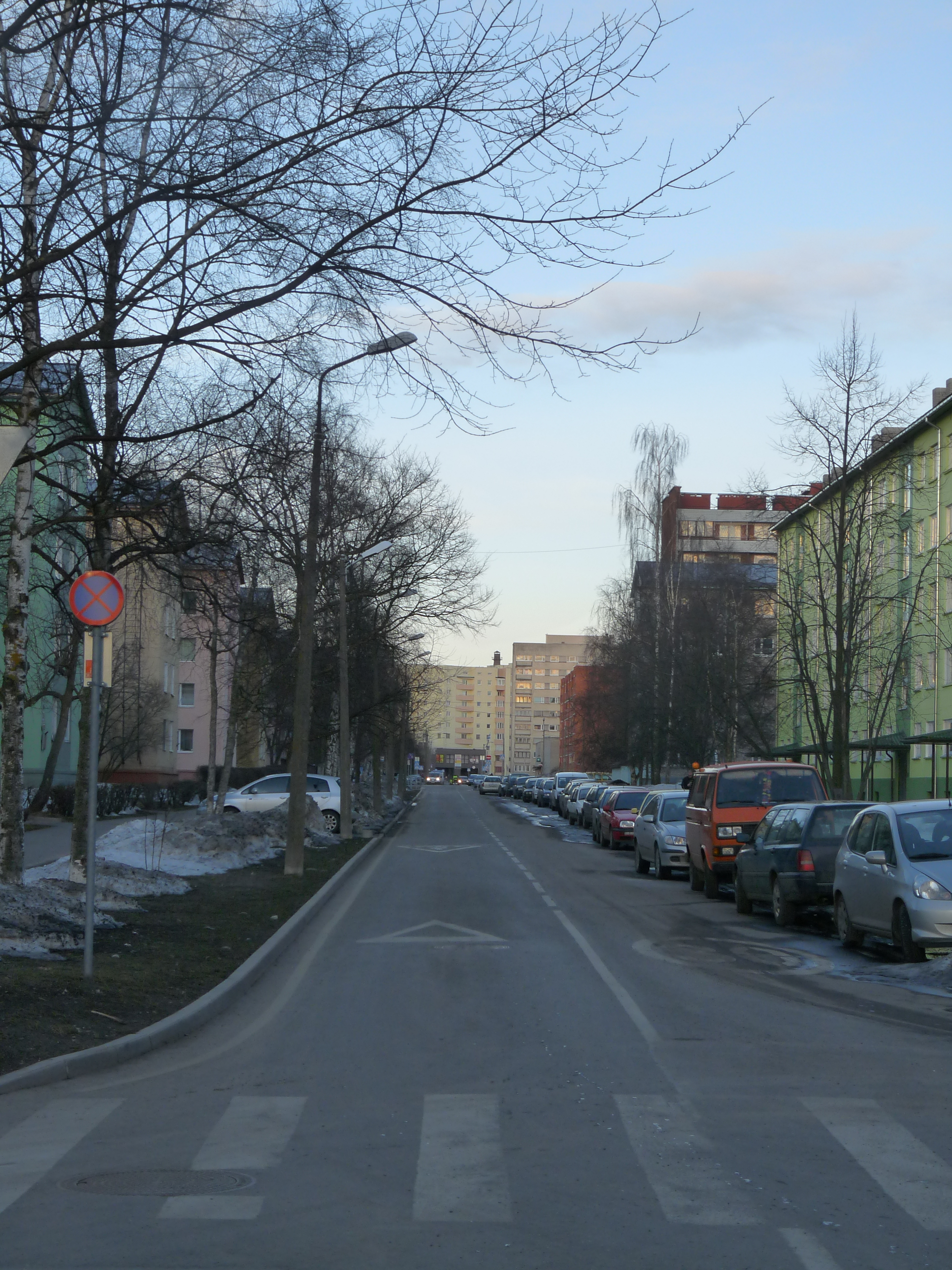 Madala street in Tallinn